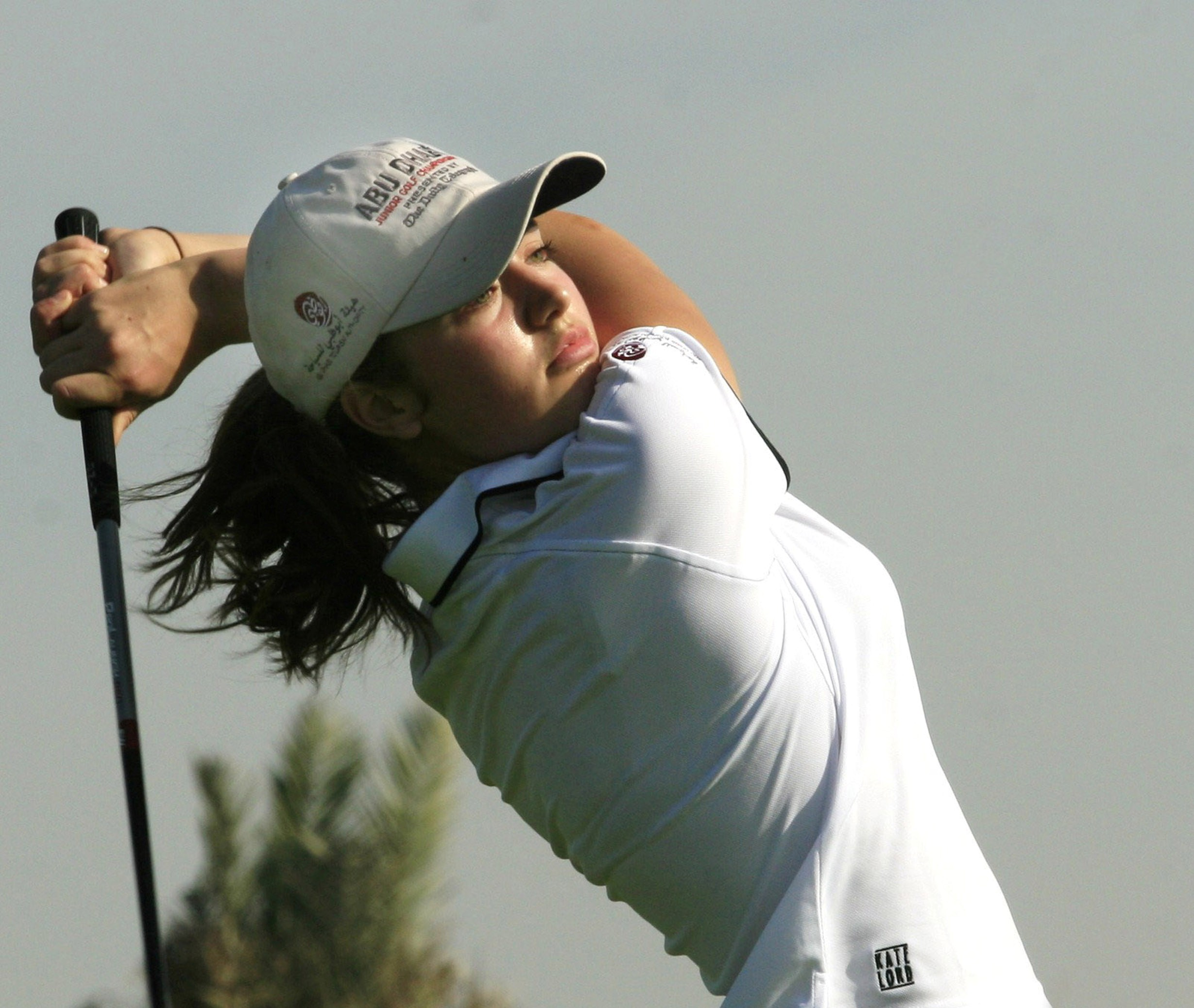 Alexandra Peters hits a shot on the way to winning the girls title at the 2009 Abu Dhabi Junior Golf Championship